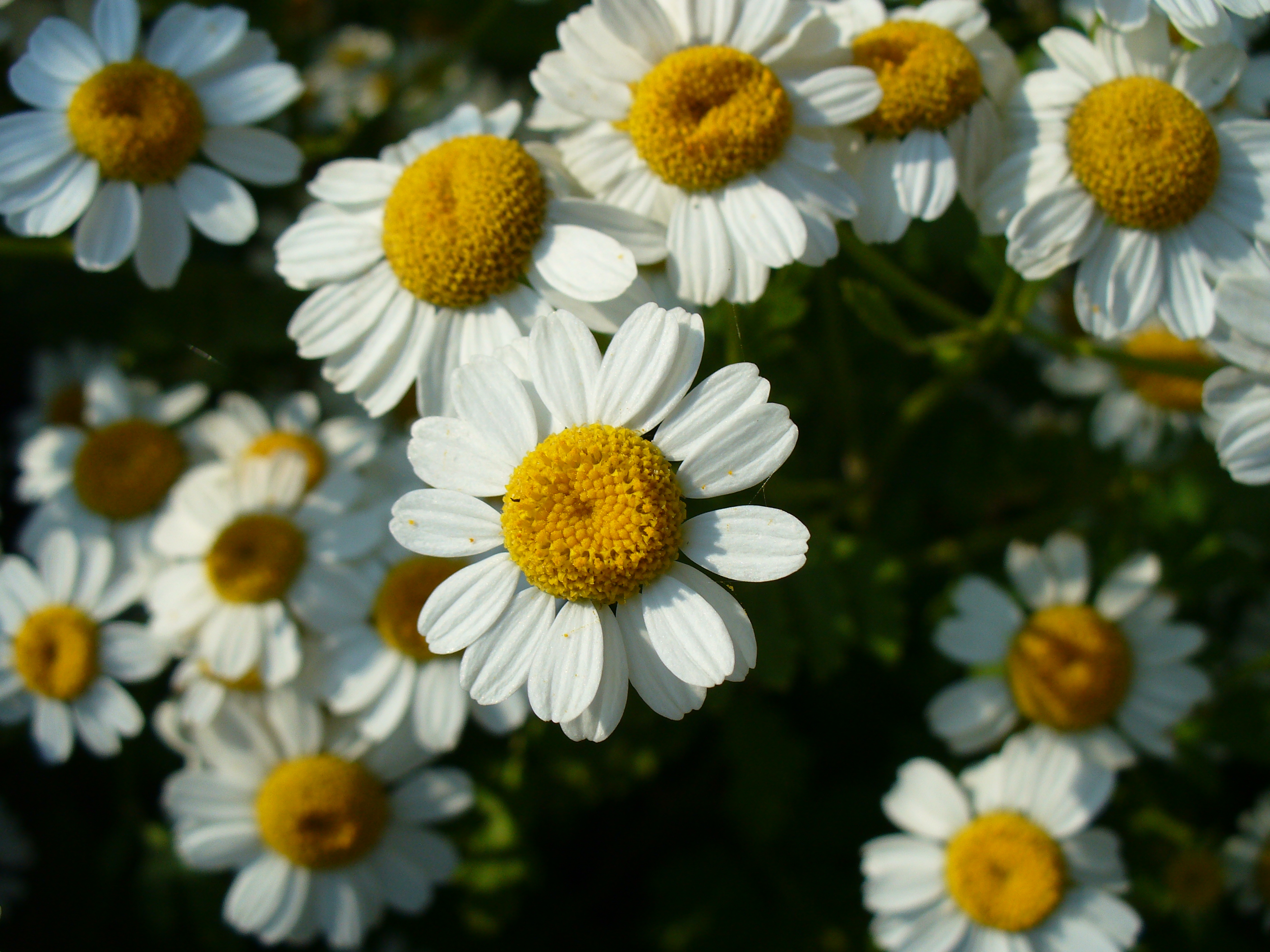 I am the originator of this photo. I hold the copyright. I release it to the public domain. This photo depicts flowers.